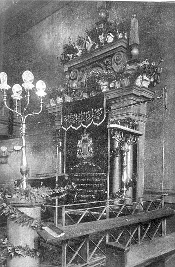 Orthodox synagogue in the Rheinstrasse of Bingen-am-Rhein; looted by the nazis in 1938. Photo around 1900. Inside of the synagogue.